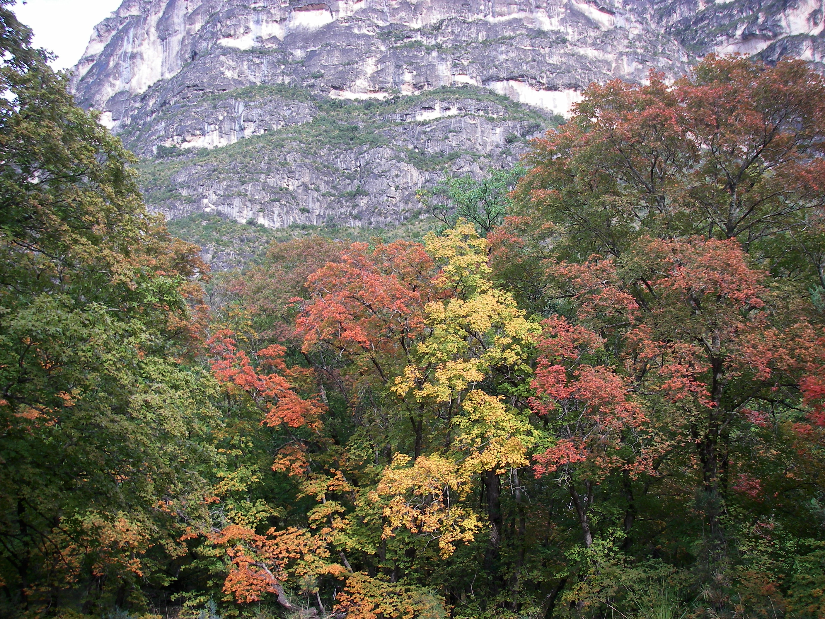 Fall colors of McKittrick Canyon with steep canyon walls in background, Guadalupe Mountains National Park.